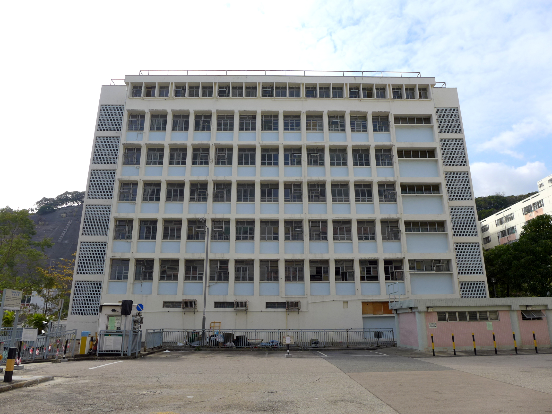 Pak Tin Estate Alliance Primary School Kowloon Tong